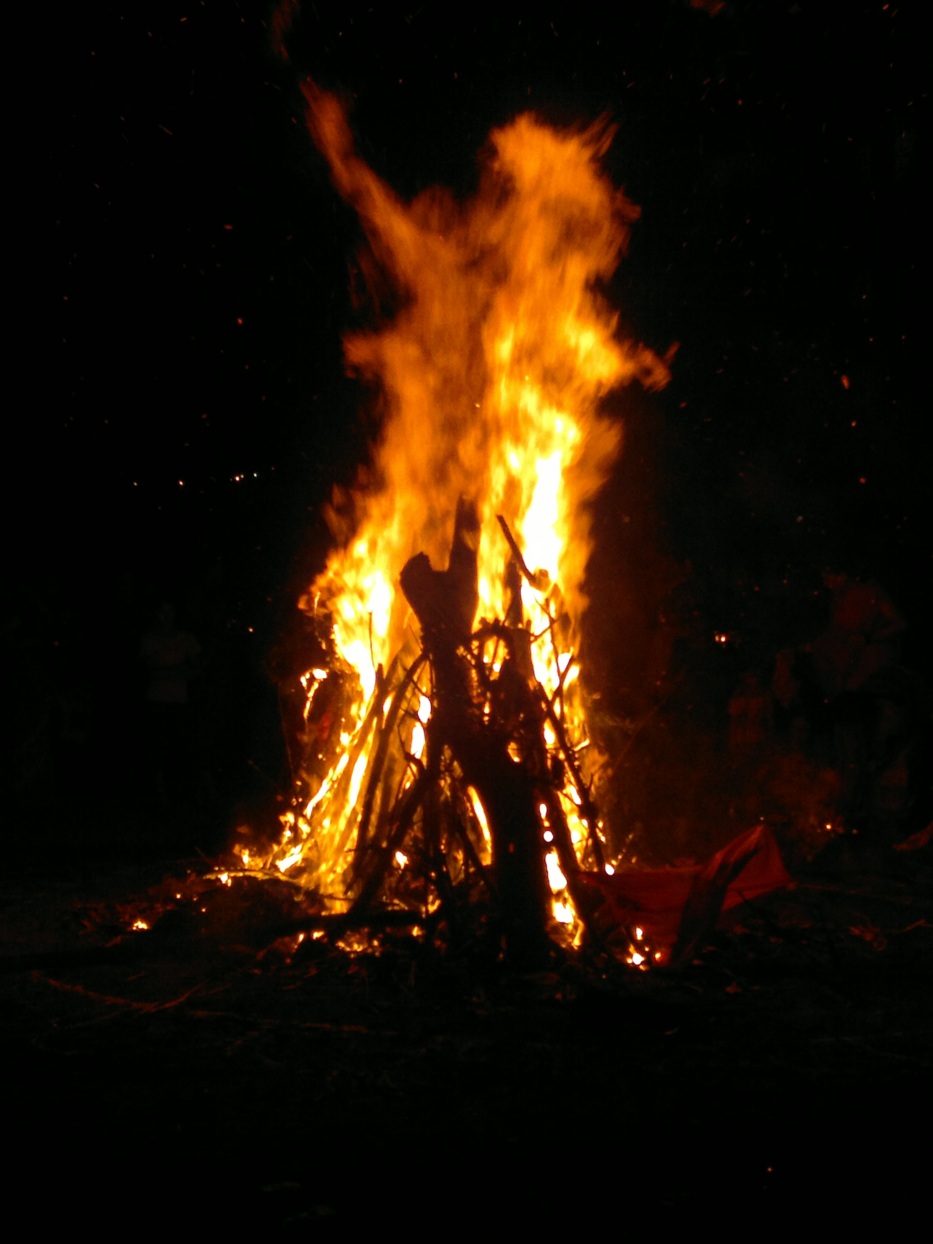 Holika Dahan in Maharashtra.